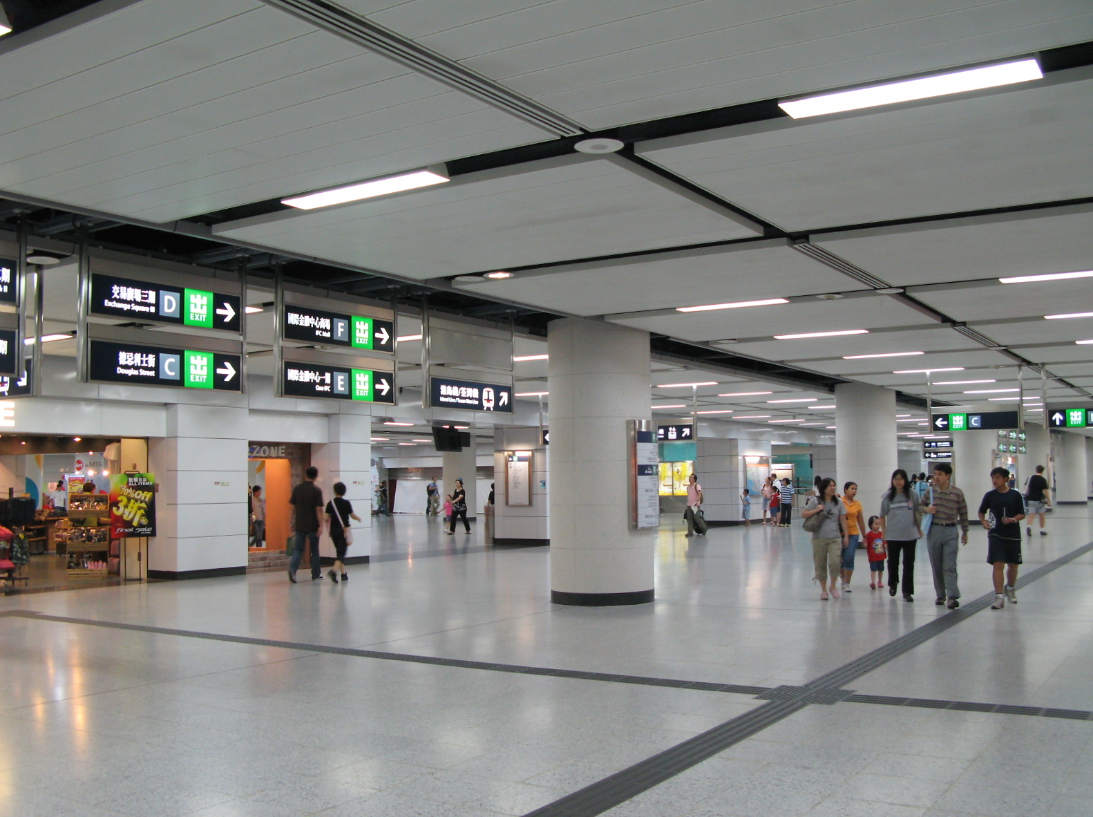 MTR Hong Kong Station Concourse